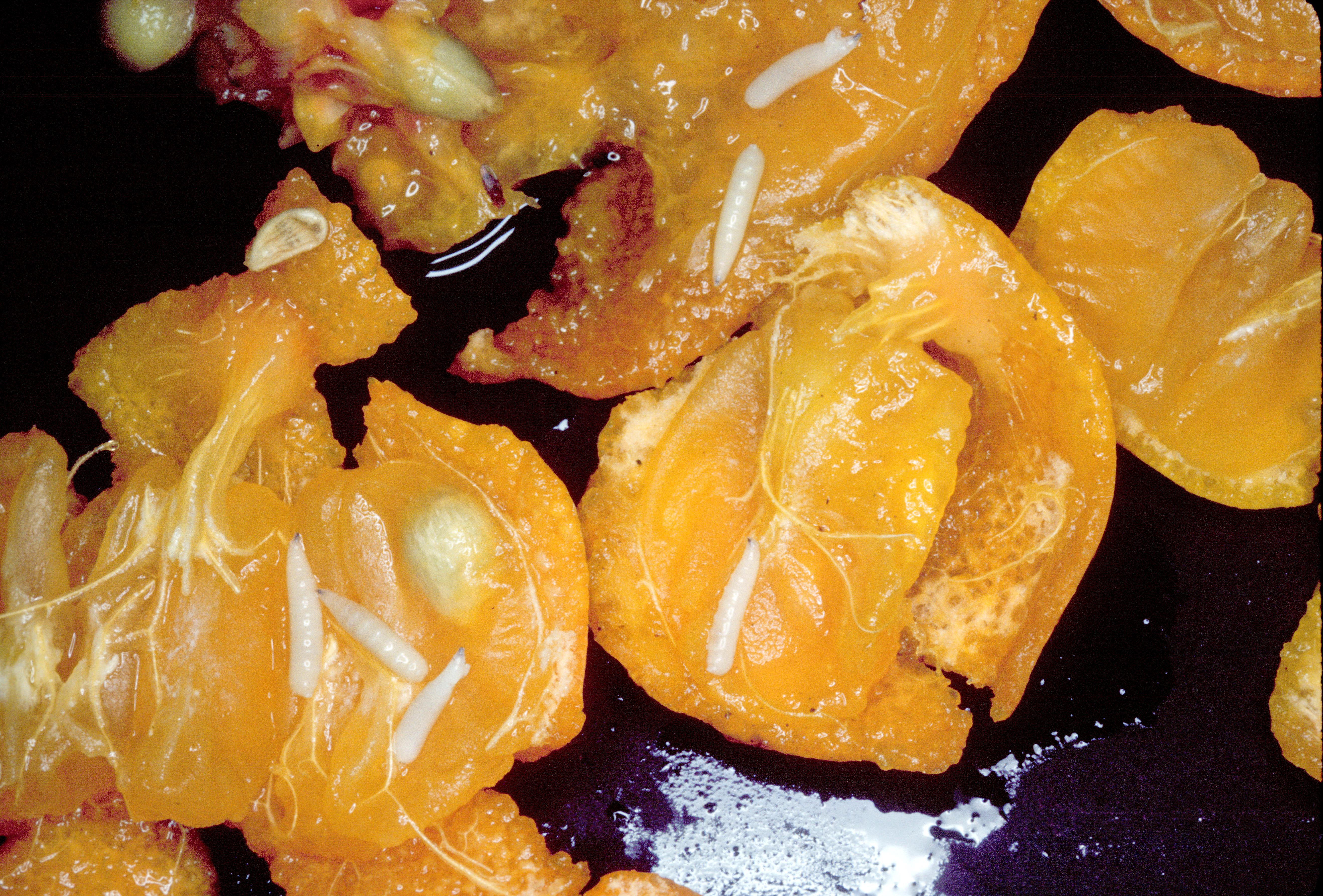 Caribbean fruit fly (Anastrepha suspensa) larvae on fruit